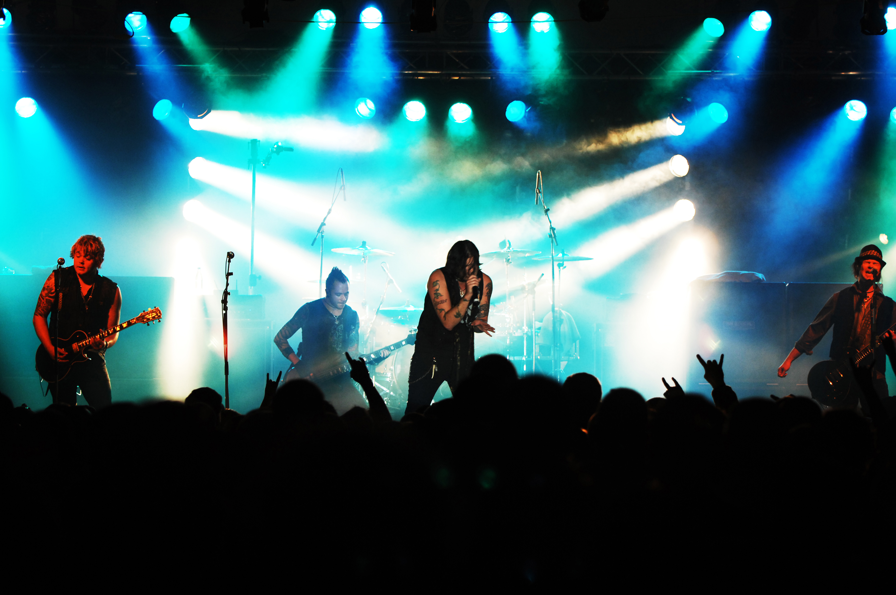 Rock band Hinder on stage at Ramstein Air Base in Germany.